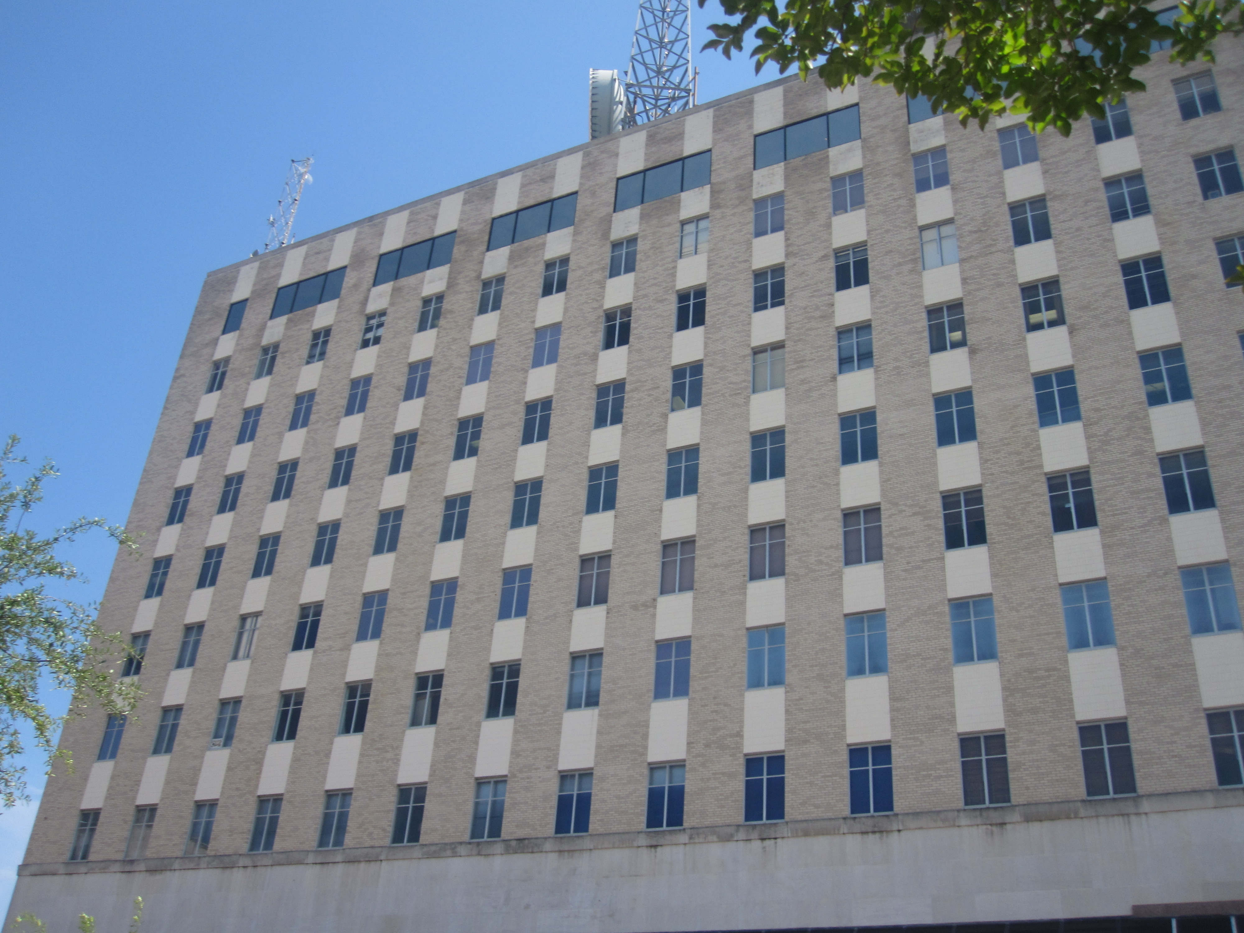 I took photo with Canon camera.